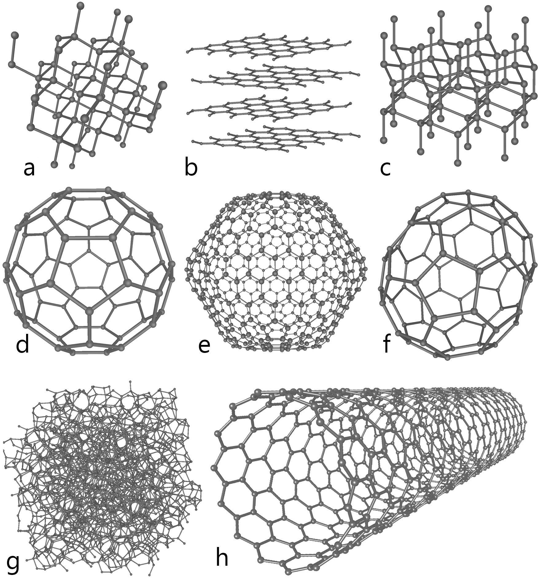 This illustration depicts eight of the allotropes (different molecular configurations) that pure carbon can take: a) Diamond b) Graphite c) Lonsdaleite d) C60 (Buckminsterfullerene) e) C540 (see Fullerene) f) C70 (see Fullerene) g) Amorphous carbon h) single-walled carbon nanotube